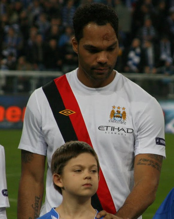 Shaun Wright-Phillips, Joleon Lescott and Adam Johnson line-up